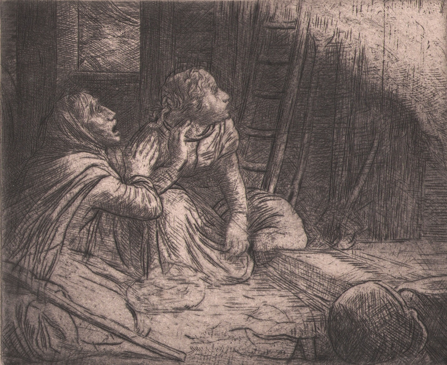 "Victimes de l´incendie" etching on paper plate: 15,3 x 18,6 cm sheet: 22,6 x 29,5 cm C 637 privately owned by Alphonse Legros is considered among Wilhelm Leibl and Gustave Courbet as the leading exponent of the Realism.